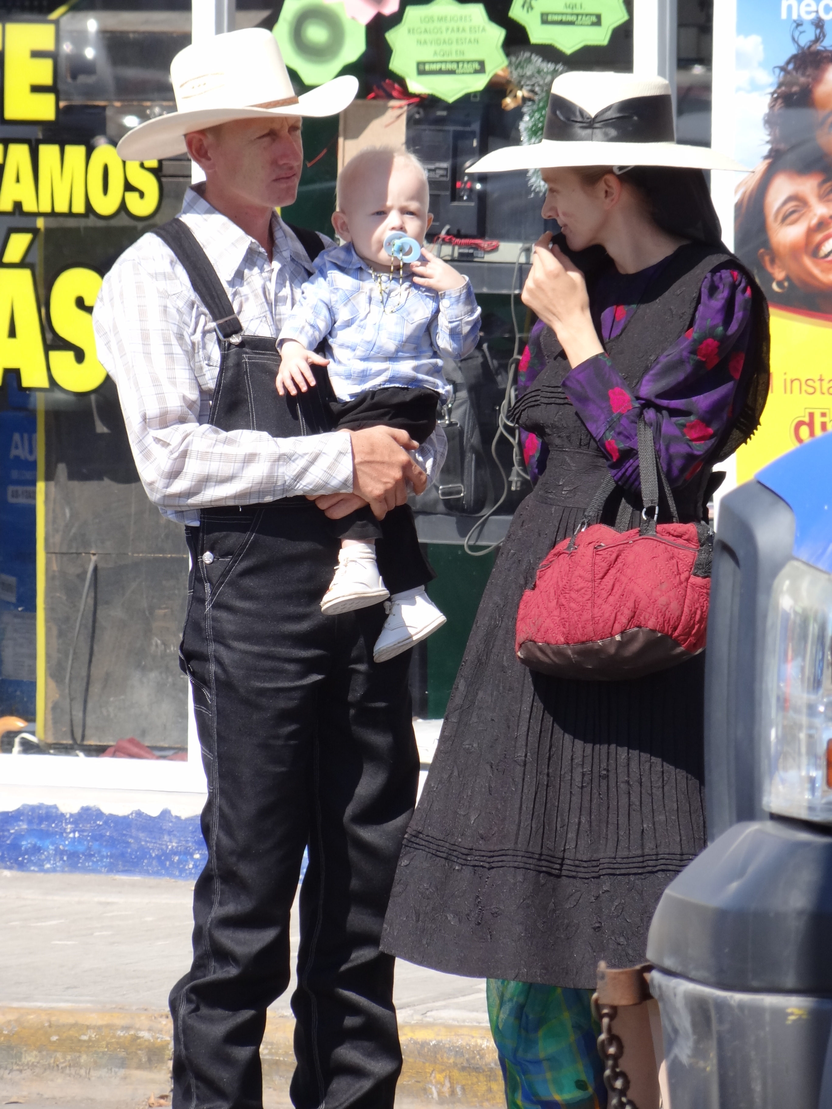 Mennonite Family - Campeche - Mexico - 01